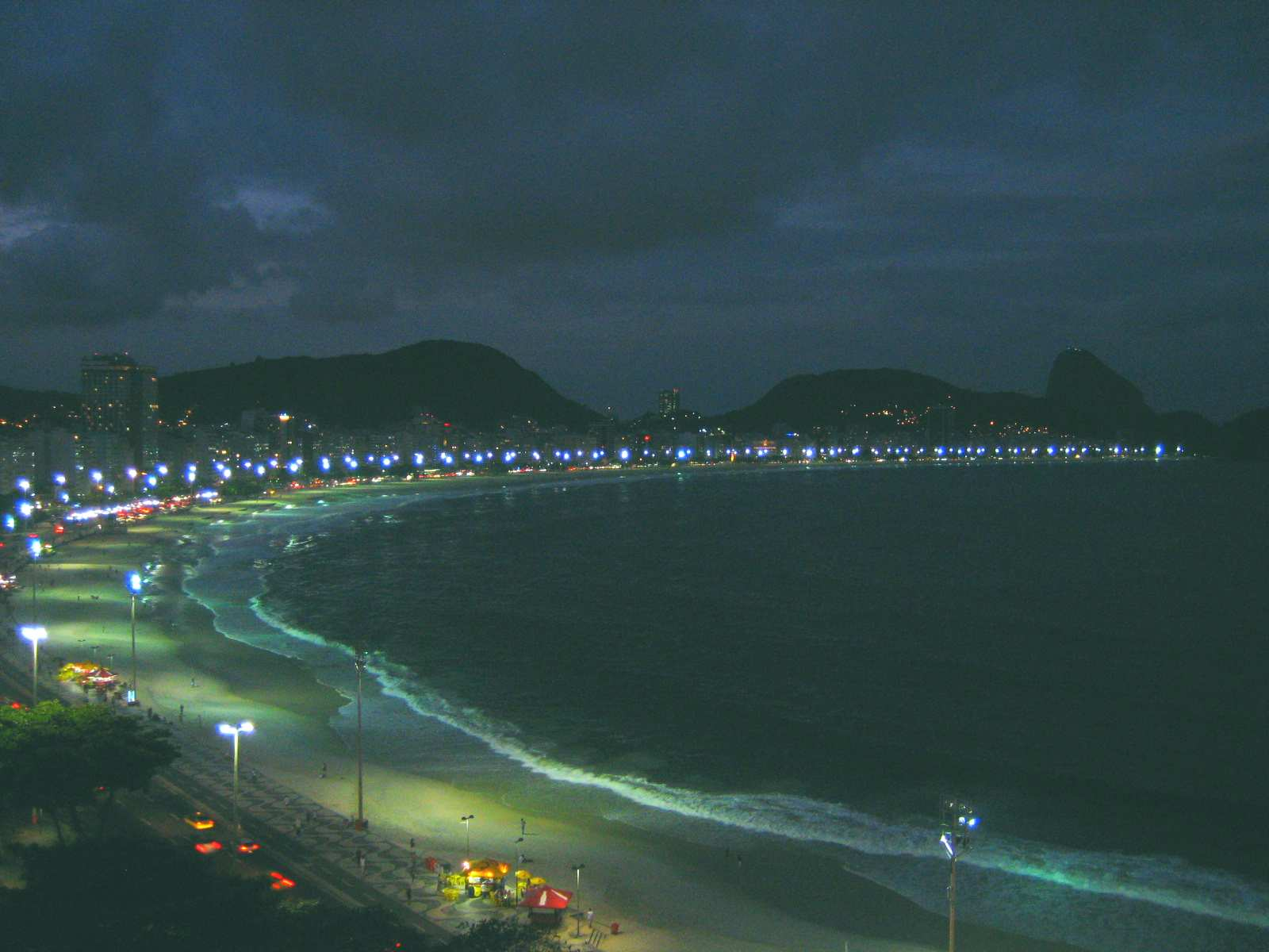 Copacabana Beach, Rio de Janeiro, at dusk.